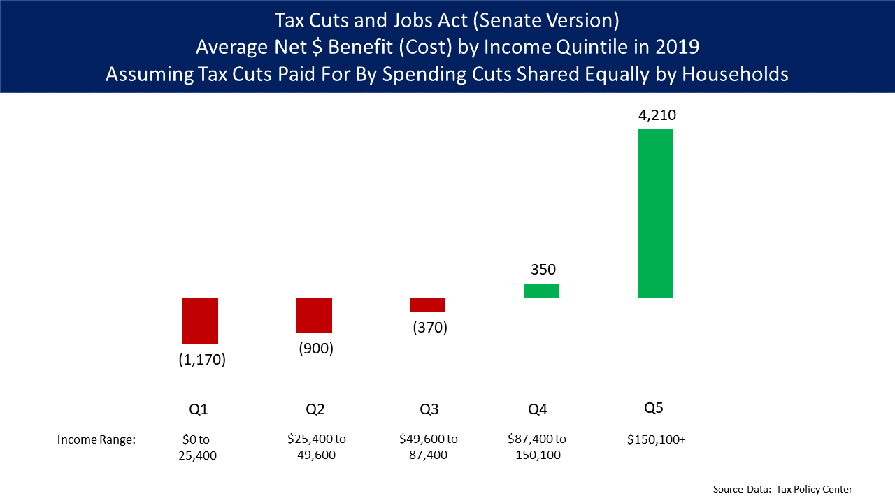 Tax Policy Center analysis of the impact of the Senate version of the Tax Cuts and Jobs Act, assuming it is paid for by spending cuts that are borne evenly by all taxpayers.